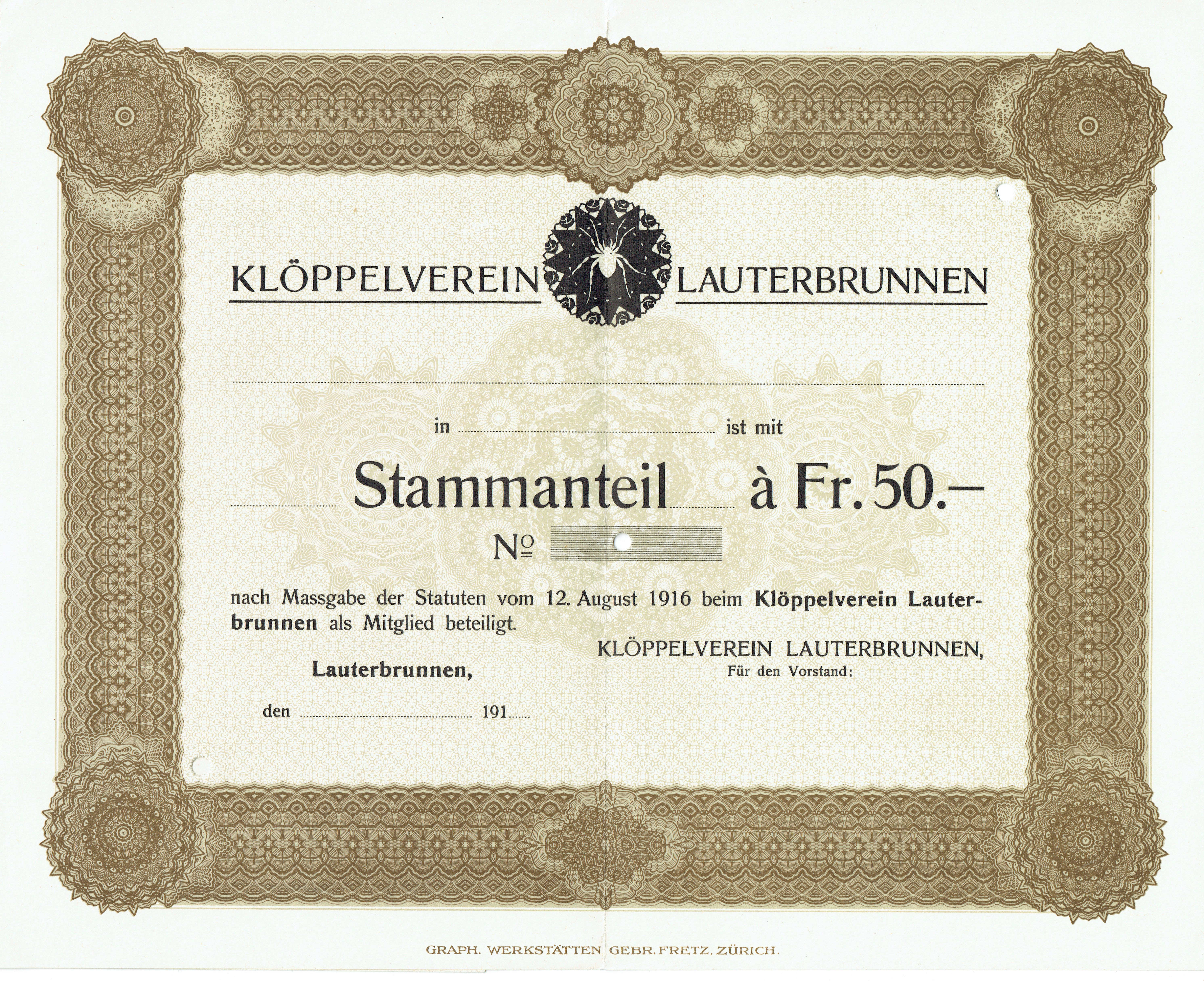 Common Security of the Klöppelverein Lauterbrunnen, issued 1916